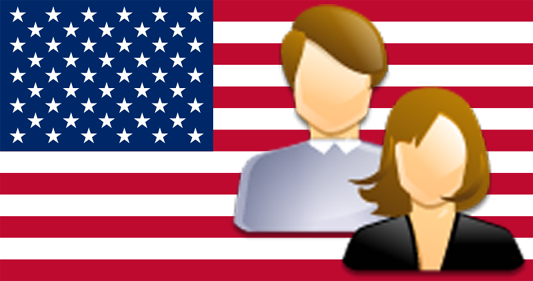 Icon for the Wikipedia stubs devoted to people from USA.